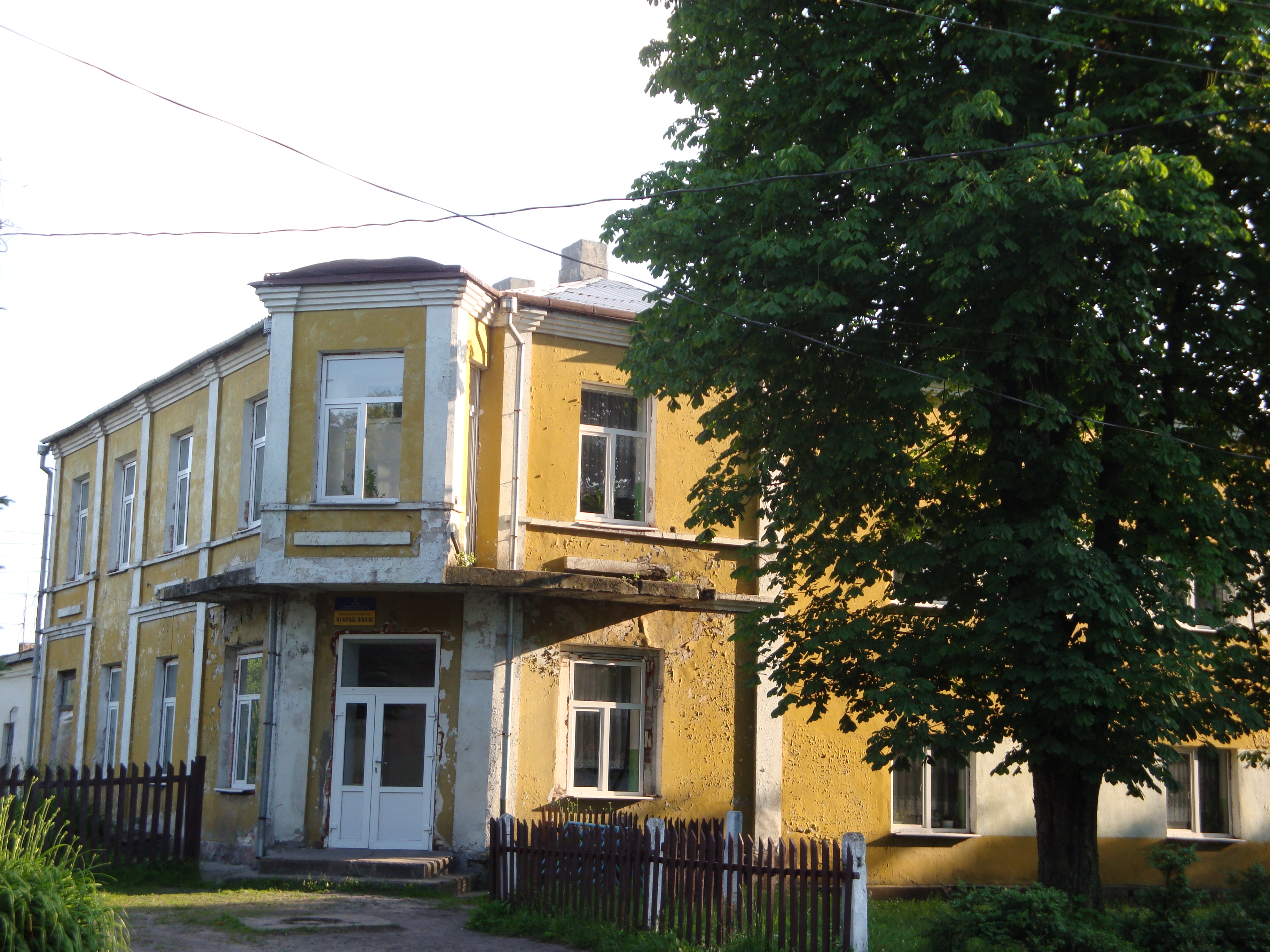 Liuboml children's music school